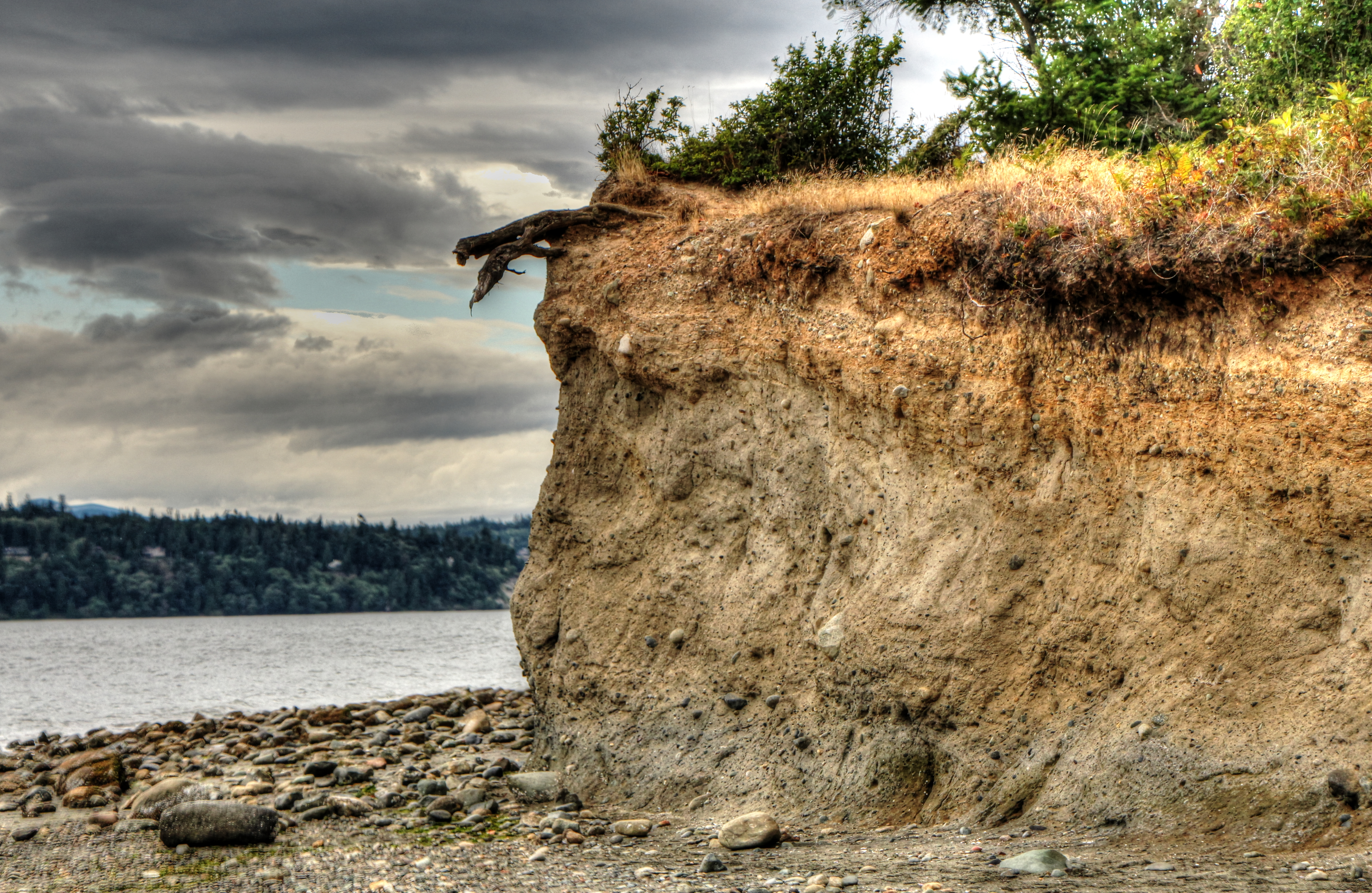 Foulweather Bluff in western Washington, USA